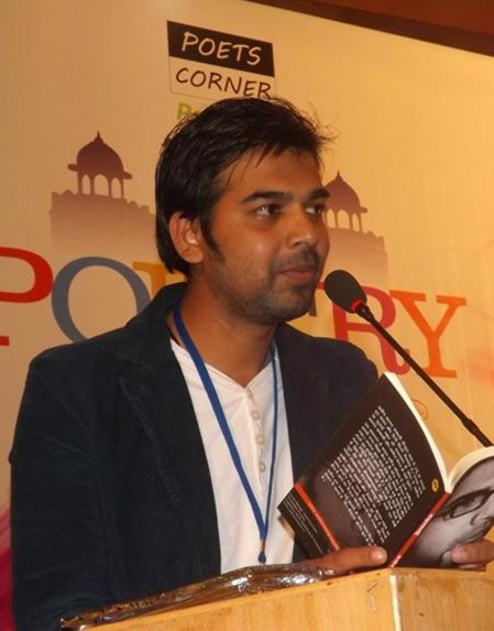 Aseem Ahmed Abbasee, DPF Finale ਪੰਜਾਬੀ: ਅਸੀਮ ਅਹਿਮਦ ਅੱਬਾਸੀ